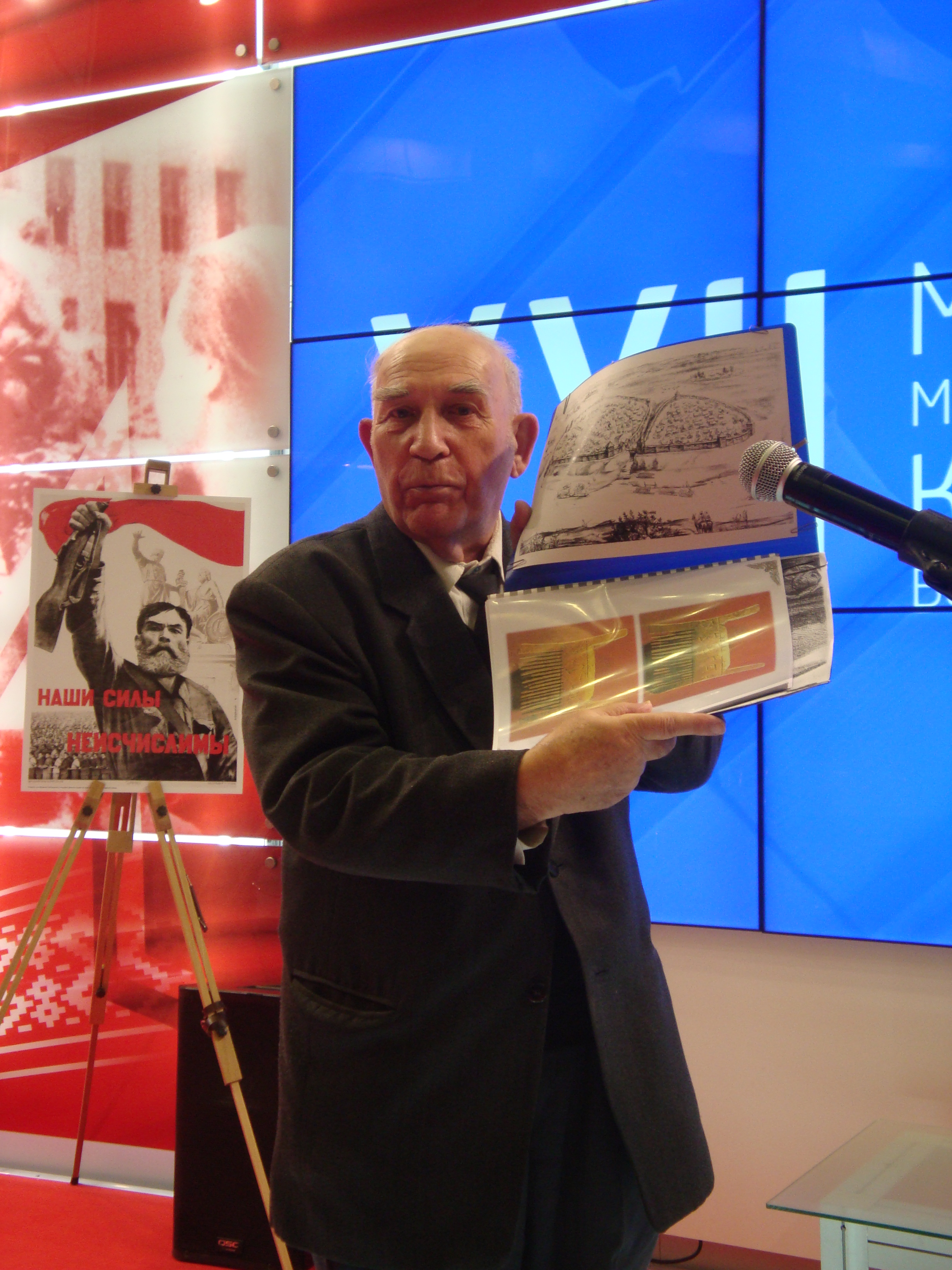 Piotr Fiodaravich Lysenka/Pyotr Fyodorovich Lysenko (born 1931 AD) -- a Belarusian archaeologist, Doctor of History (since 1988), professor (since 1993). His public appearance on XXII International book exhibition in Minsk city (Belarus). 14 February 2015 AD